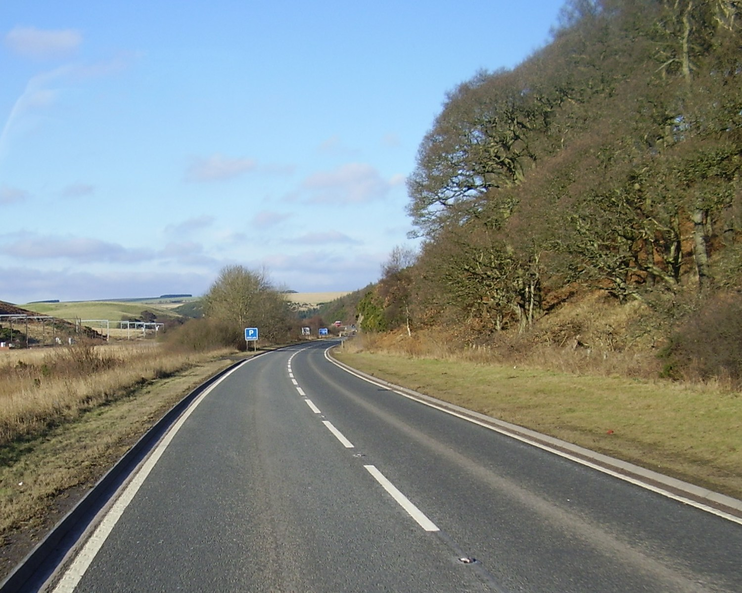 Single carriageway stretch of the A1 road in Scotland between Berwick-upon-Tweed and Dunbar, more specifically between Grantshouse and Penmanshiel. Own photo taken 2006-01-29.